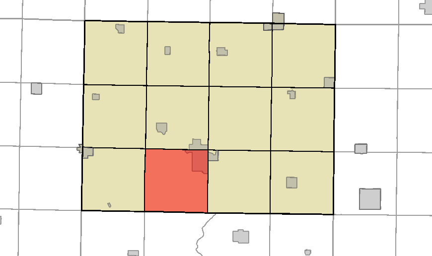 This is a map of Humboldt County, Iowa, USA which highlights the location of Corinth Township.